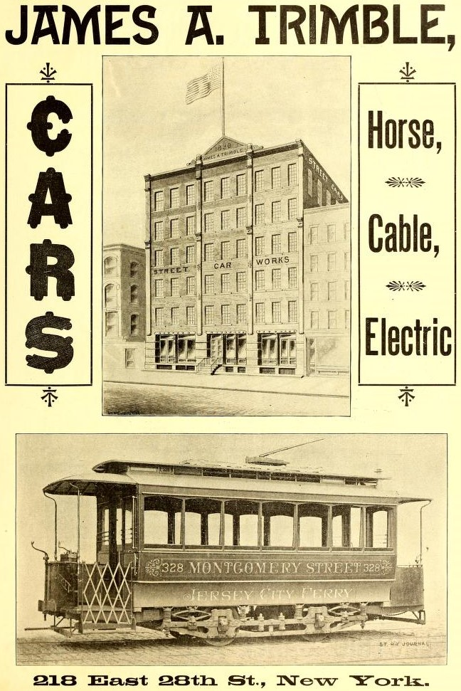 Title: The Street railway journal Year: 1884 (1880s) Authors: Subjects: Street-railroads Electric railroads Transportation Publisher: New York : McGraw Pub. Co. Text Appearing Before Image: June, i 894.J THE STREET RAILWAY JOURNAL. 107 JAMES A. TRIMBLE, Text Appearing After Image: 218 Eats! Q8tlx St., New York. 108 THE STREET RAILWAY JOURNAL. (Vol. X. No. 6. THE BARNEY & SMITH CAR CO.